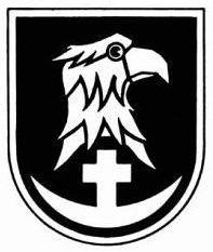 sign of the 102. infantery division (Wehrmacht)